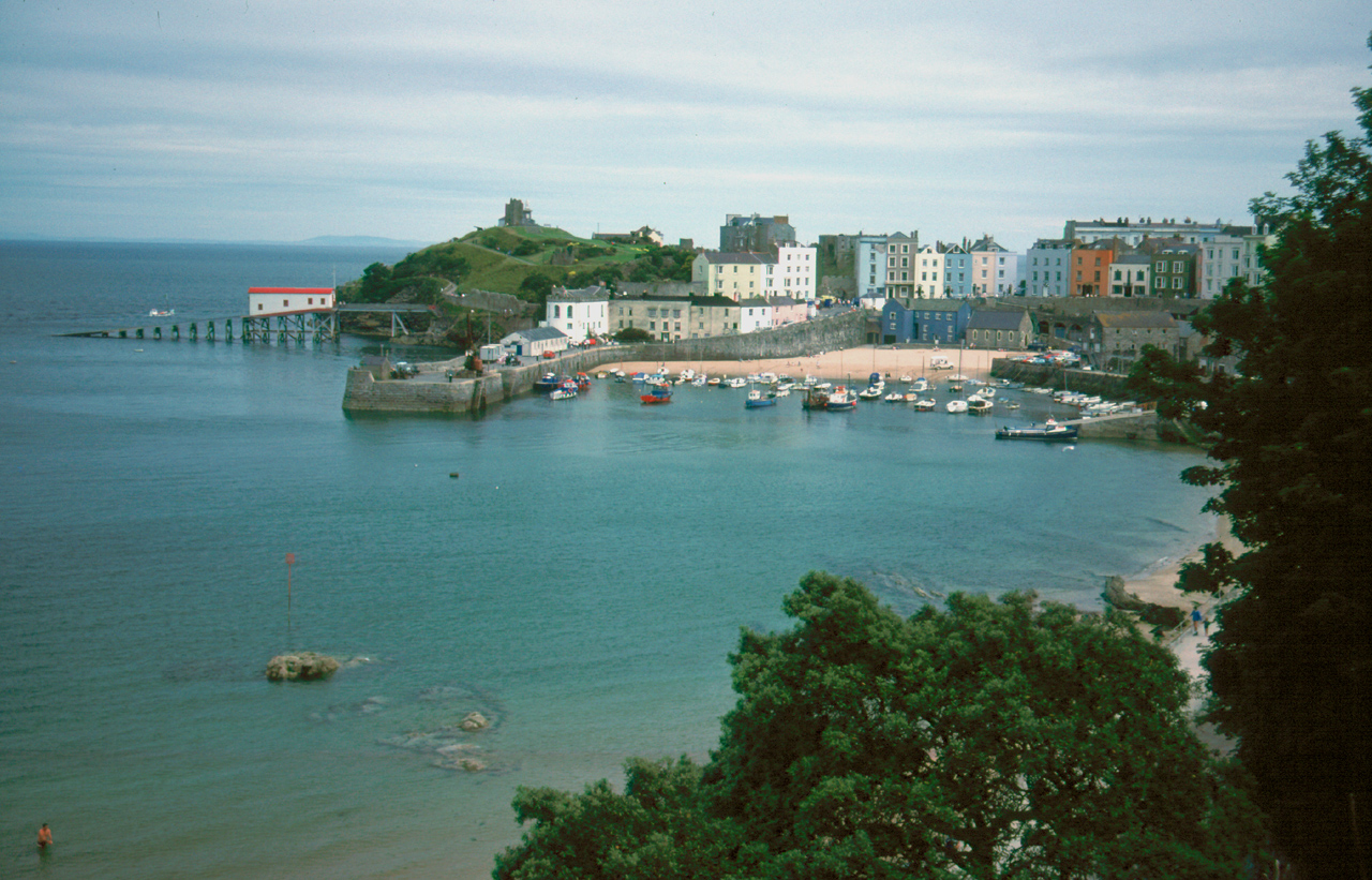 Viallage of Tenby, Pembrokeshire, Wales